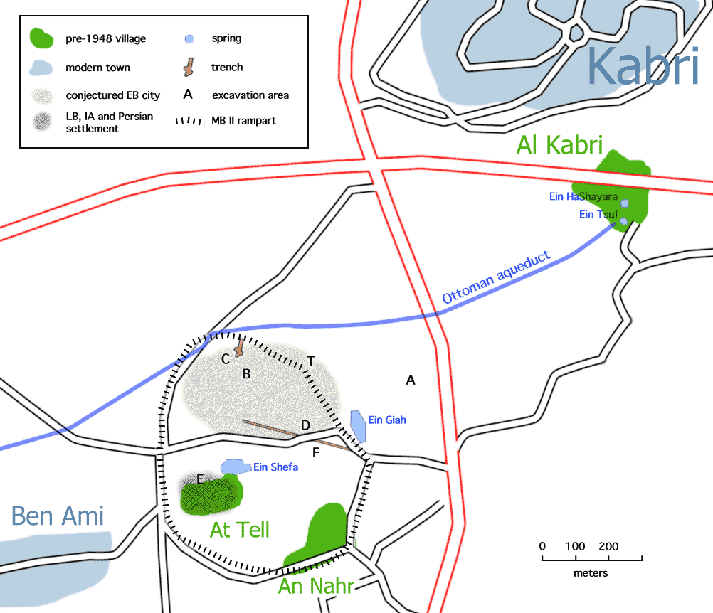 Map showing ancient and modern sites in the vicinity of Kabri, Israel.